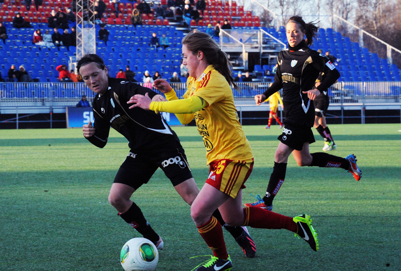 Klingenberg on 2013-04-01 Tyresö FF-Kopparberg/Göteborg FC